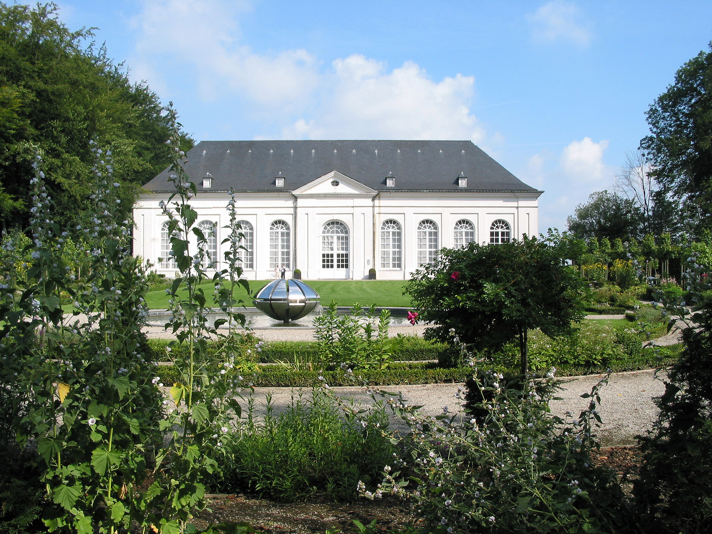 Seneffe (Belgium), castle garden - the orangery (architect: Louis Montoyer - 1782), the basin fountain and the flowers garden.